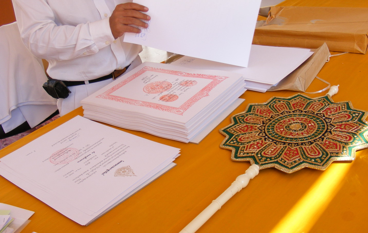 The Thai royal command has appointed the rank to the Thai Buddhist priest.Wat Nong Wong, Amphoe Sawankhalok, Sukhothai, Thailand.